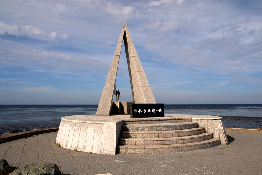 日本北海道稚內市宗谷岬「日本最北端之地」之碑 Memorial of "The Most Northern Land of Japan", Cape Soya, Wakkanai, Hokkaido, Japan